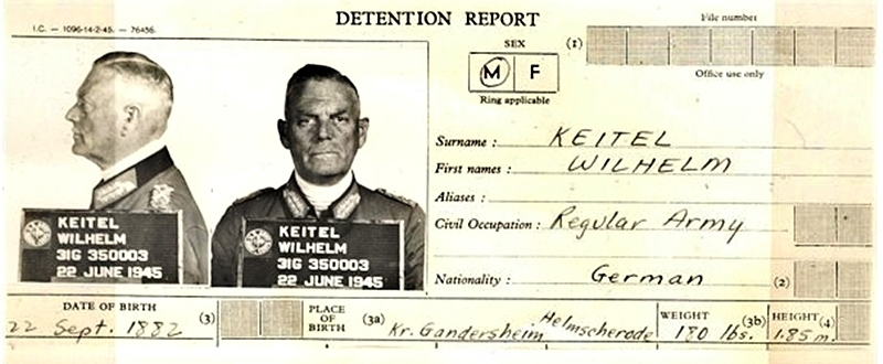 Detention report and Mugshots of Wilhelm Keitel